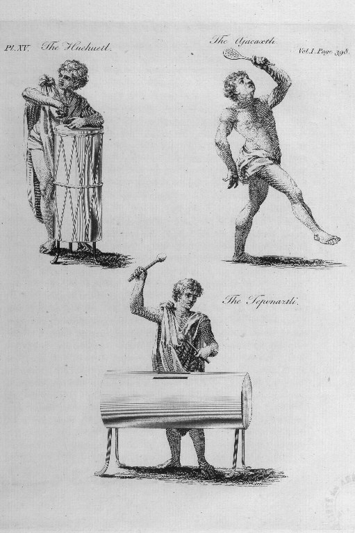 Aztec musicians